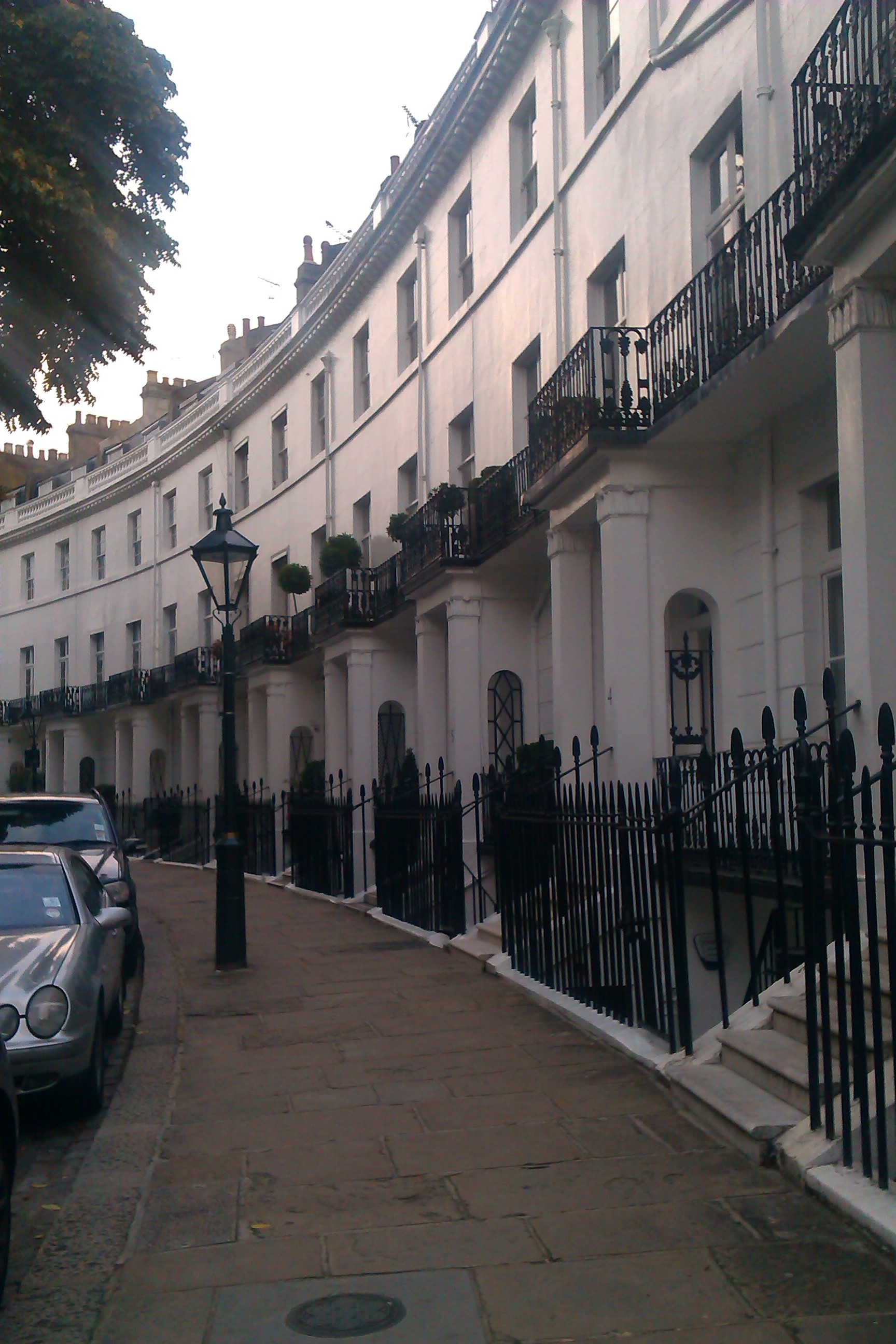 1-14 Pelham Crescent